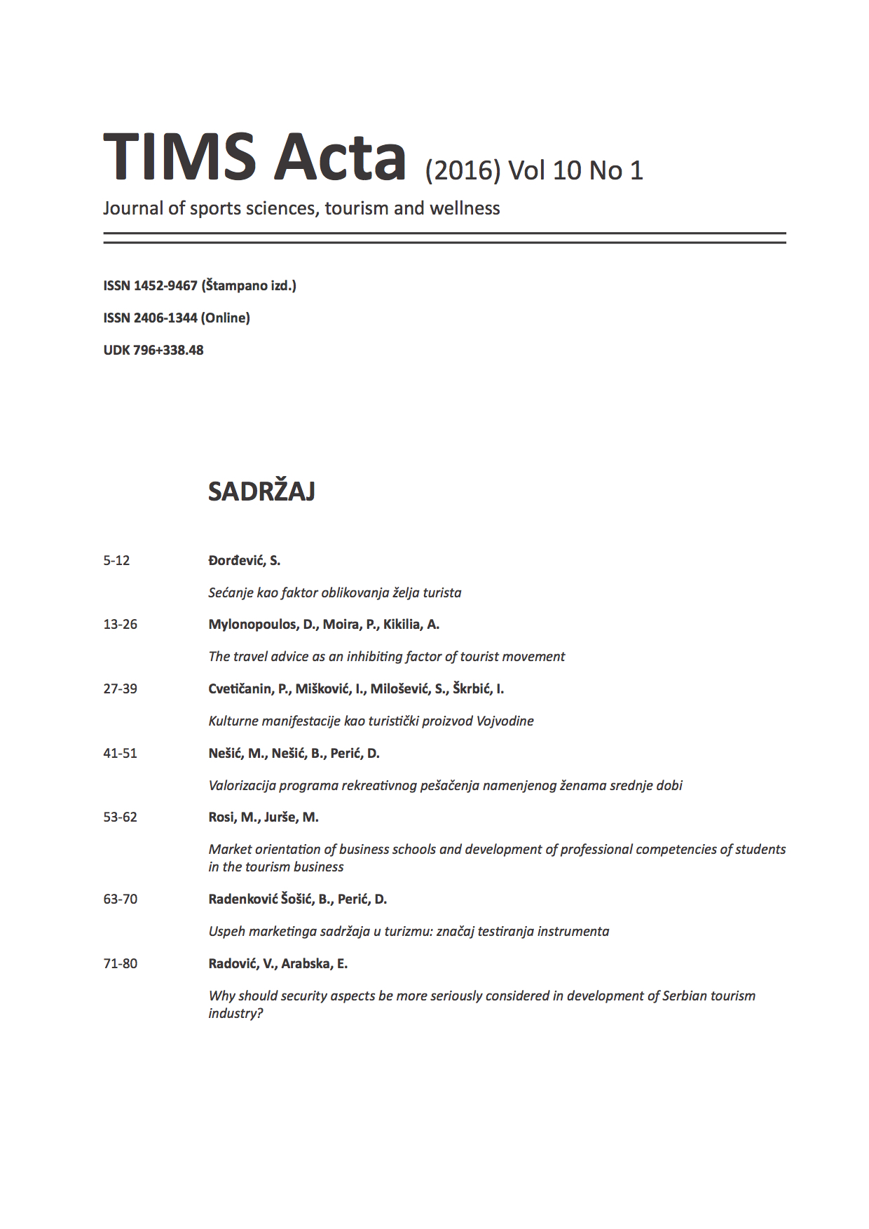 Impressum